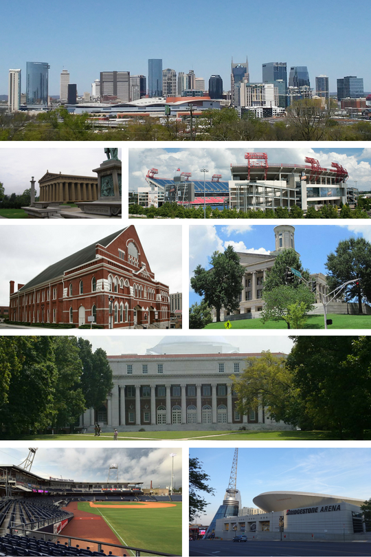 Collage of Nashville, Tennessee: are the sources for this file.